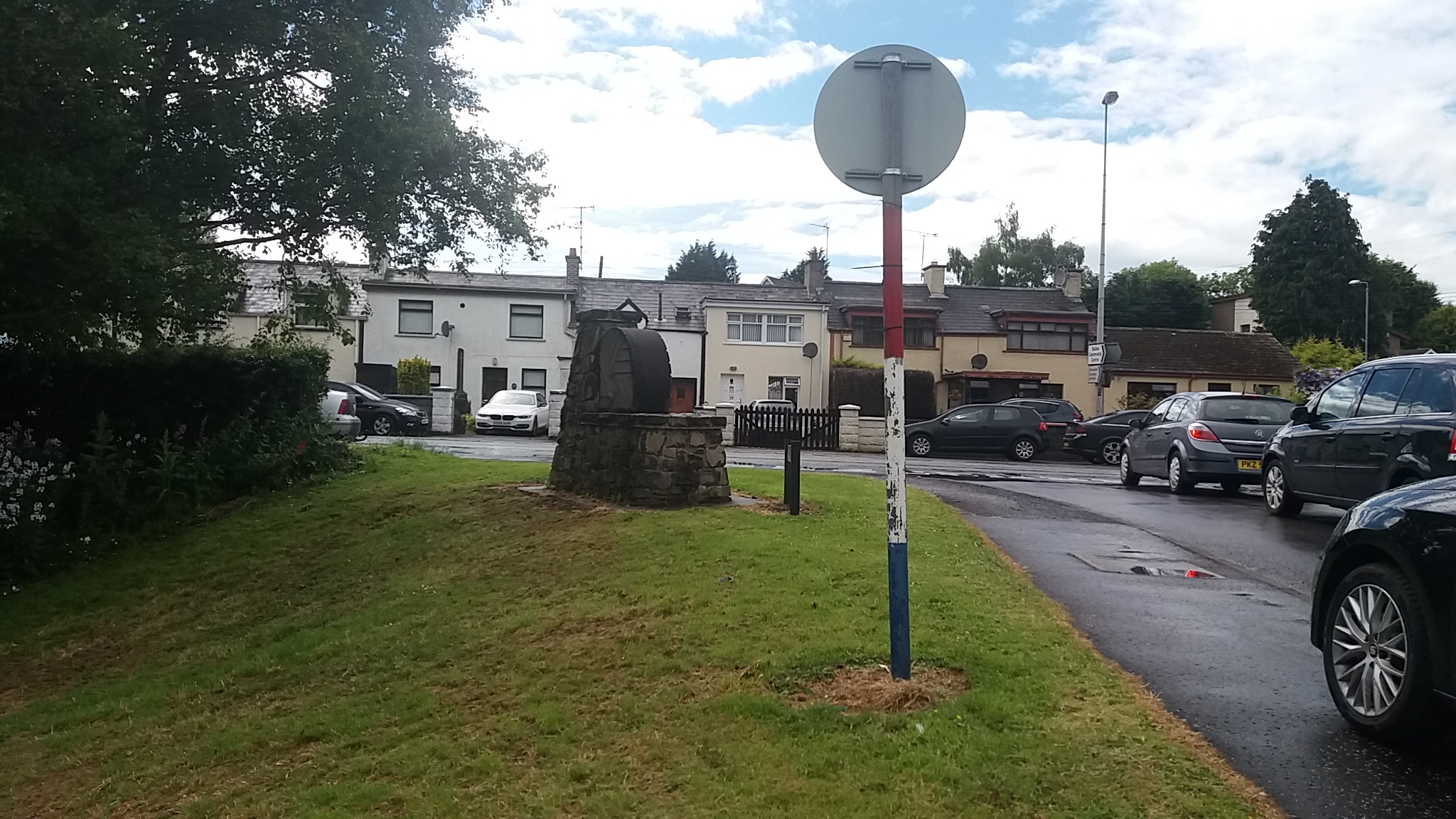 Entrance to estate